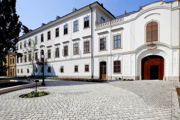 Visitor Centre, middle wing of Archbishopric Palace, Eger